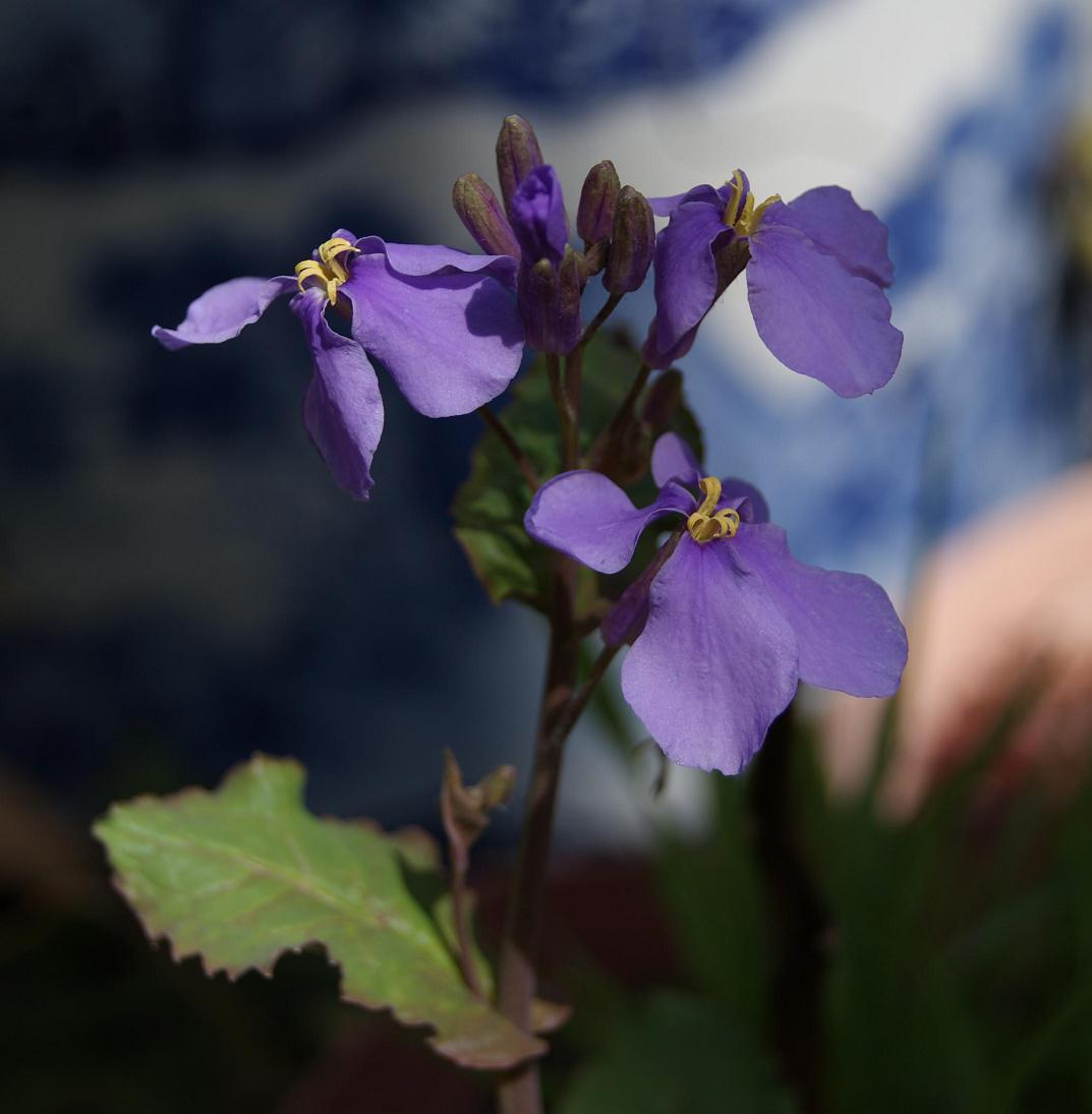 Orychophragmus violaceus (ōaraseitō), leaves and flowers